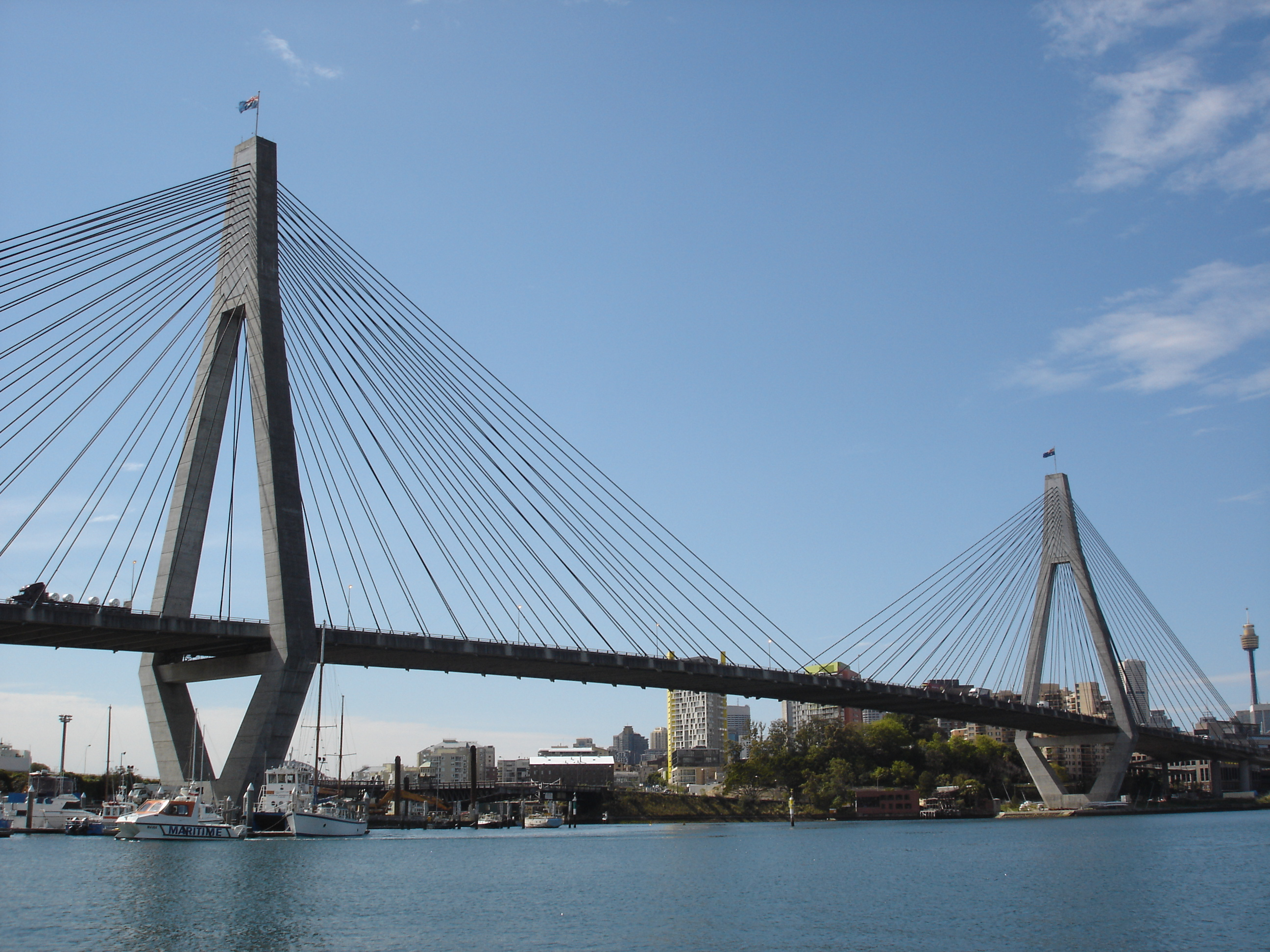 ANZAC Bridge, New South Wales. Picture taken 6/9/06 by user Amitch.